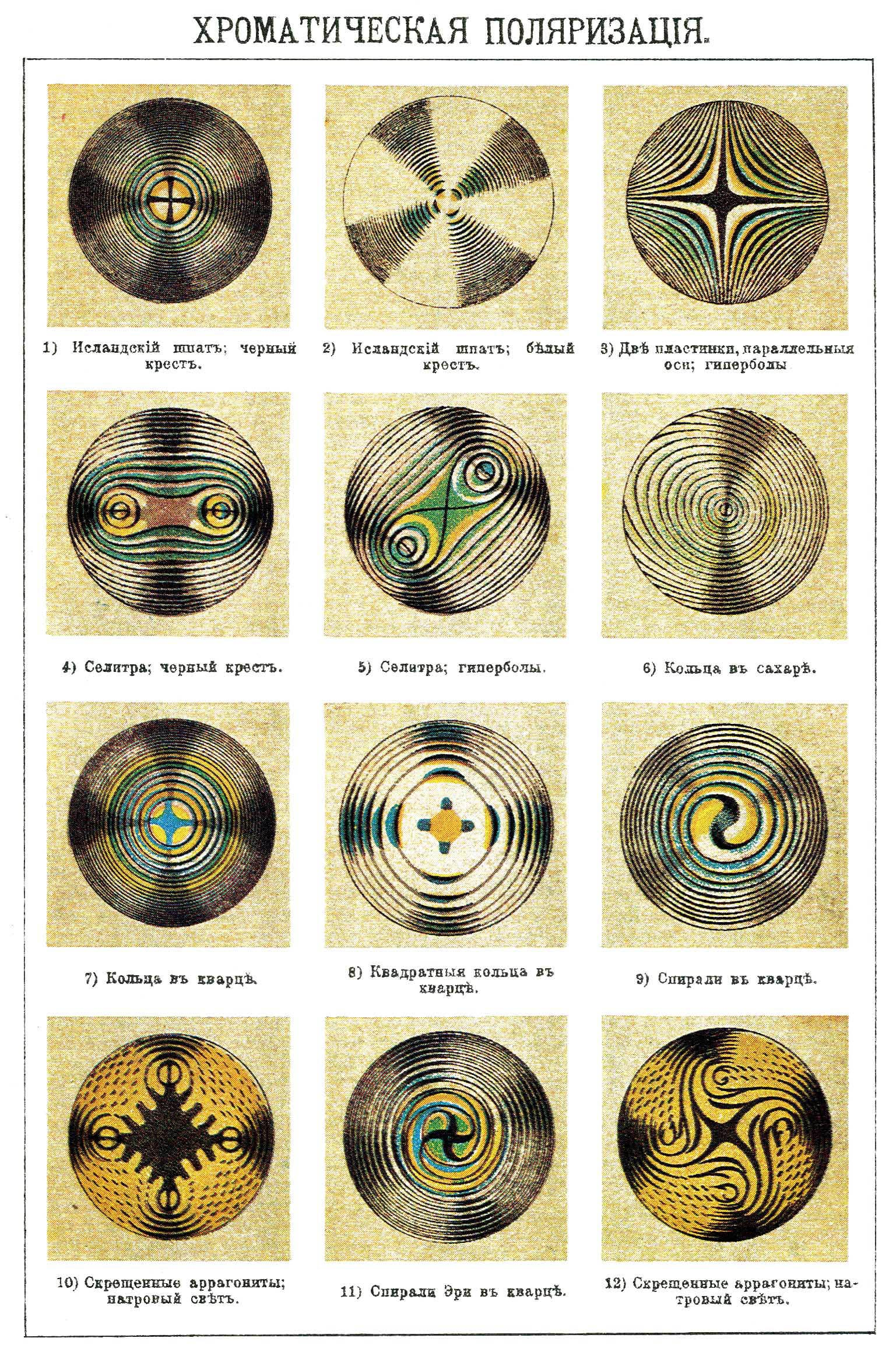 Illustration from Brockhaus and Efron Encyclopedic Dictionary (1890—1907)